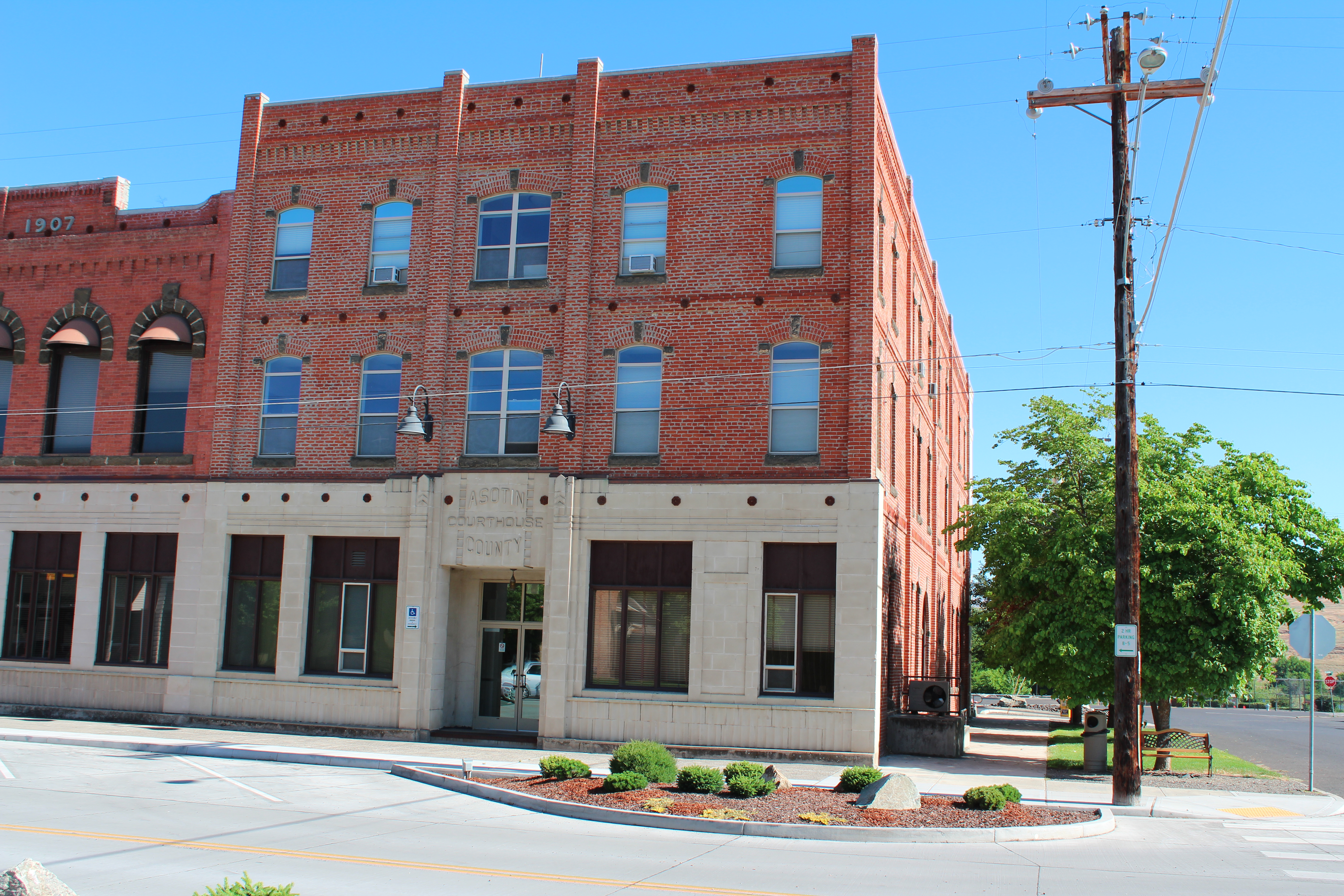 Asotin County Courthouse located at 135 2nd St., Asotin, WA. The photo was taken June 6, 2013 by jch.